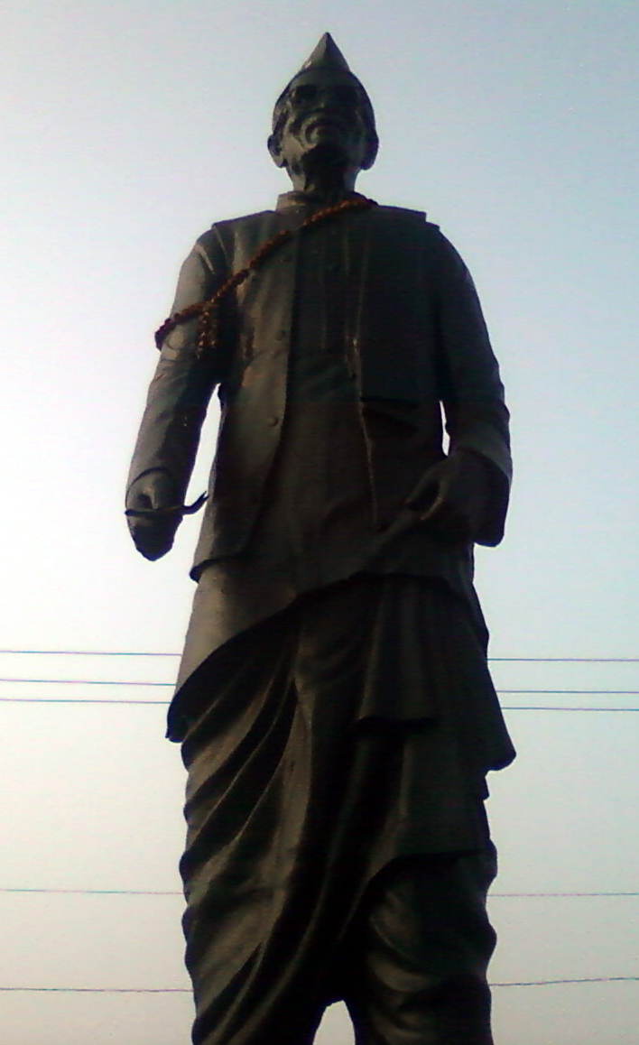 N G Ranga Statue at RK Beach, Visakhapatnam